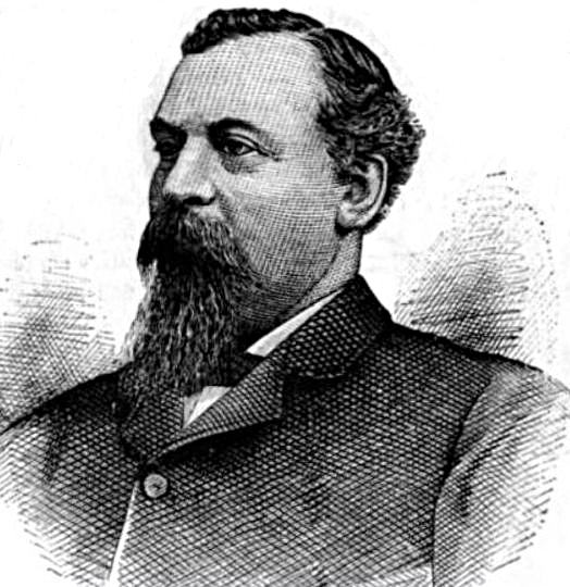 John Paul, US Representative from Virginia